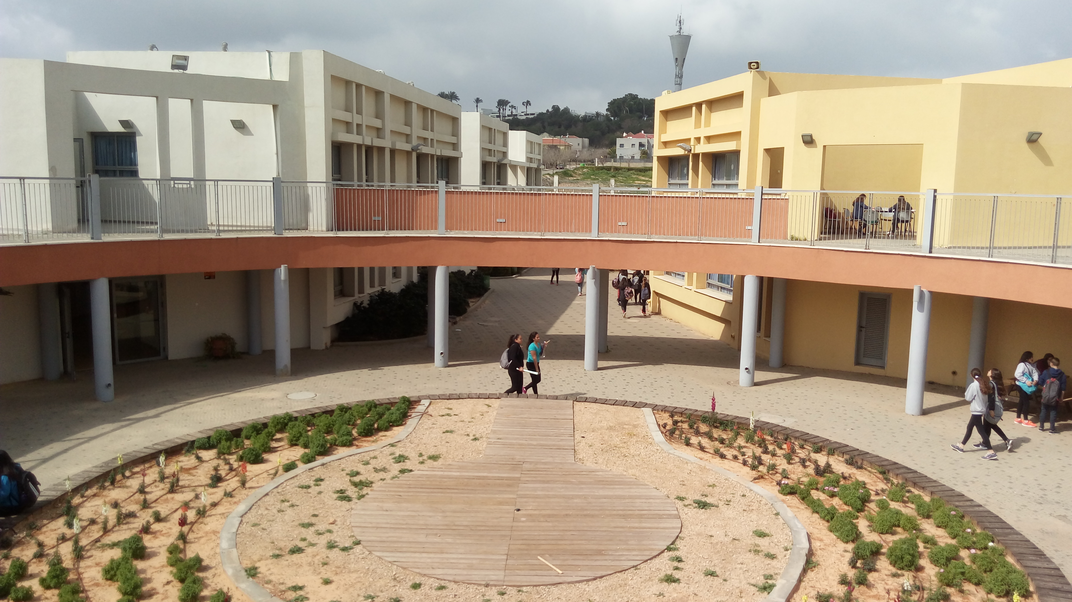 בית ספר רמון